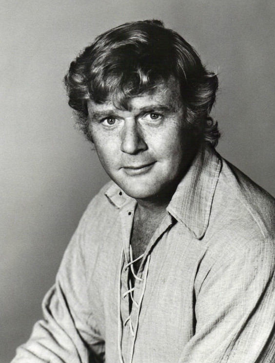 Photo of Martin Milner from the television program Swiss Family Robinson.